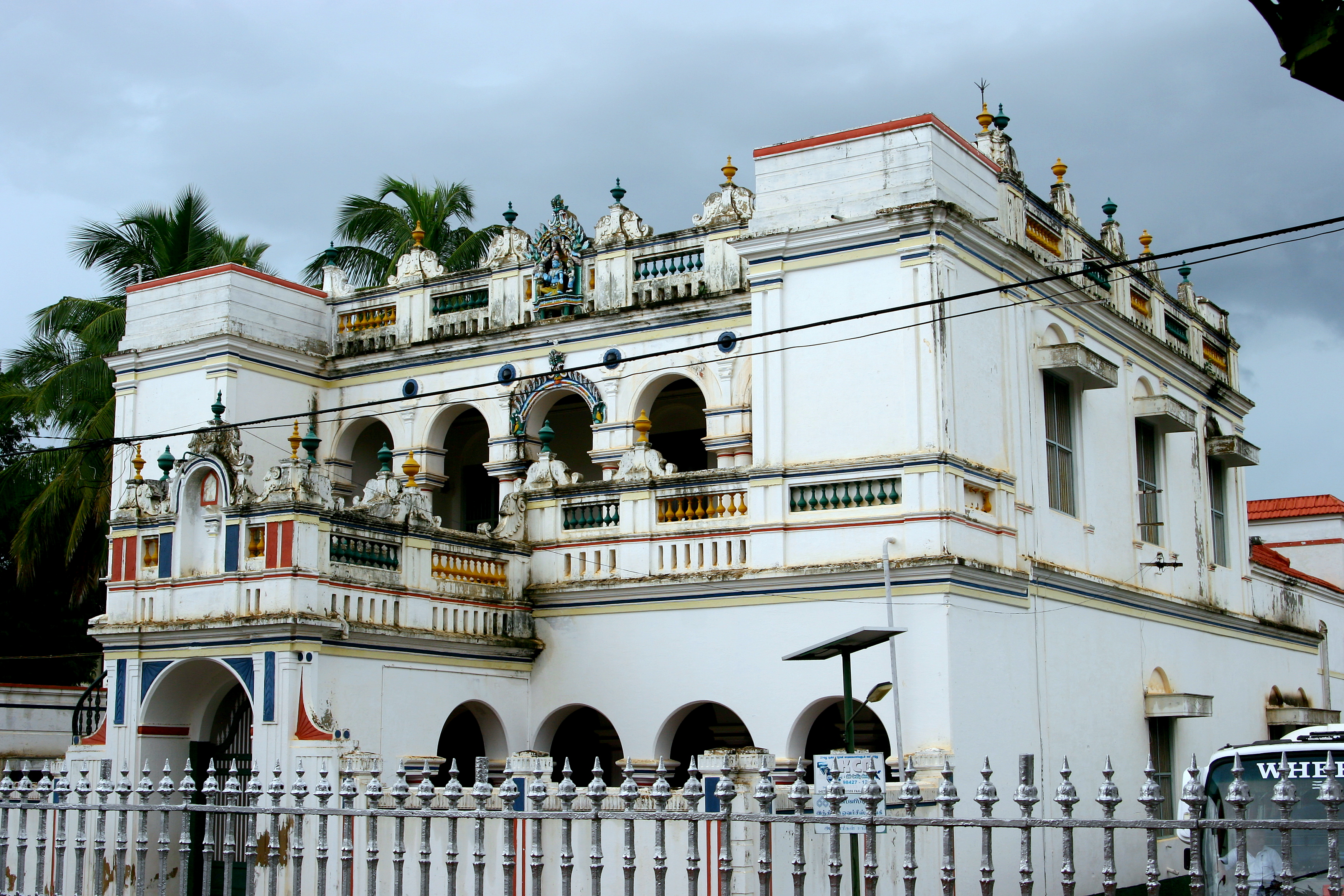 A Palatial house in the Chettinad region of Tamil Nadu